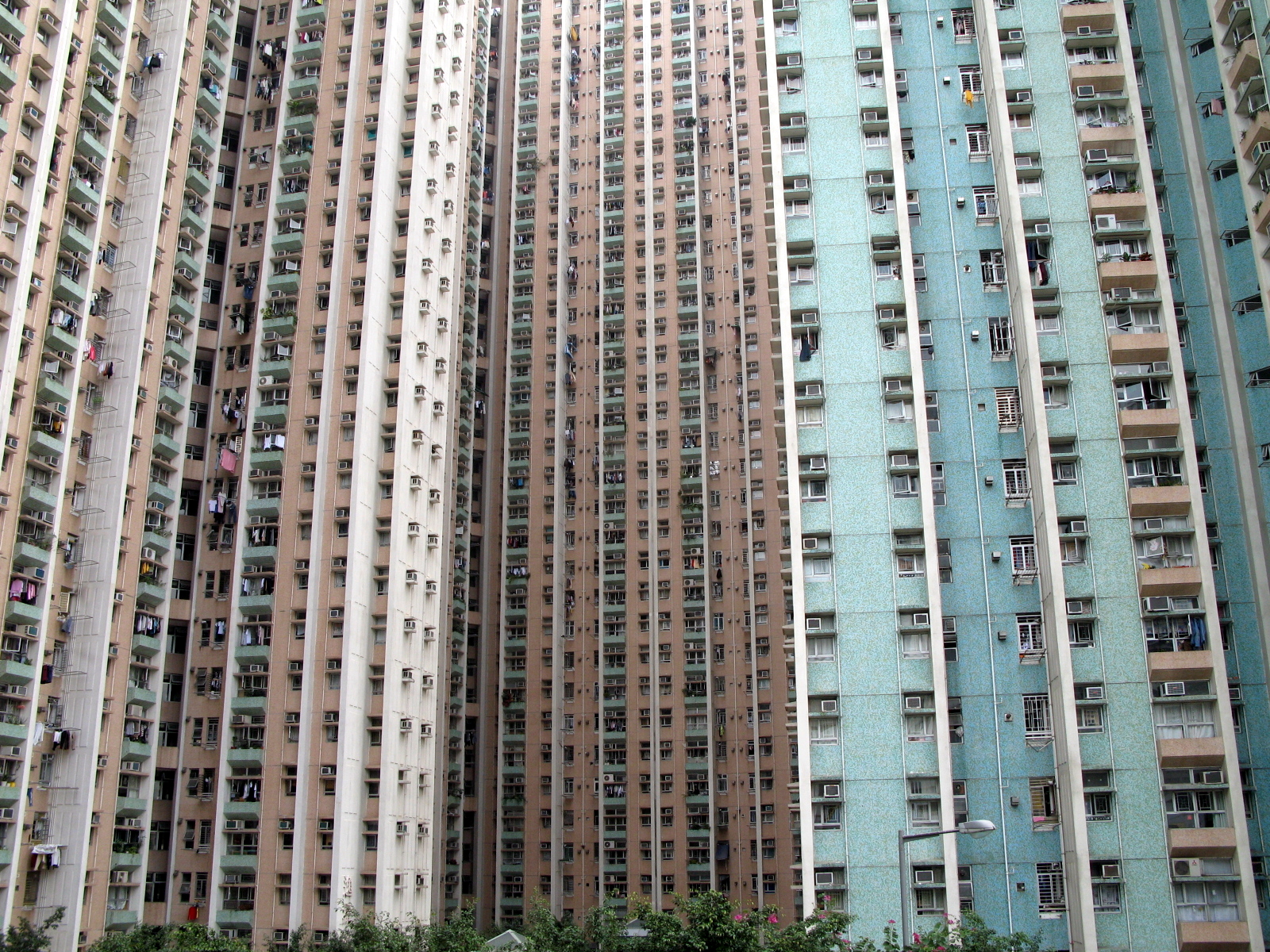 HK Tin Yat Estate in Tin Shui Wai North